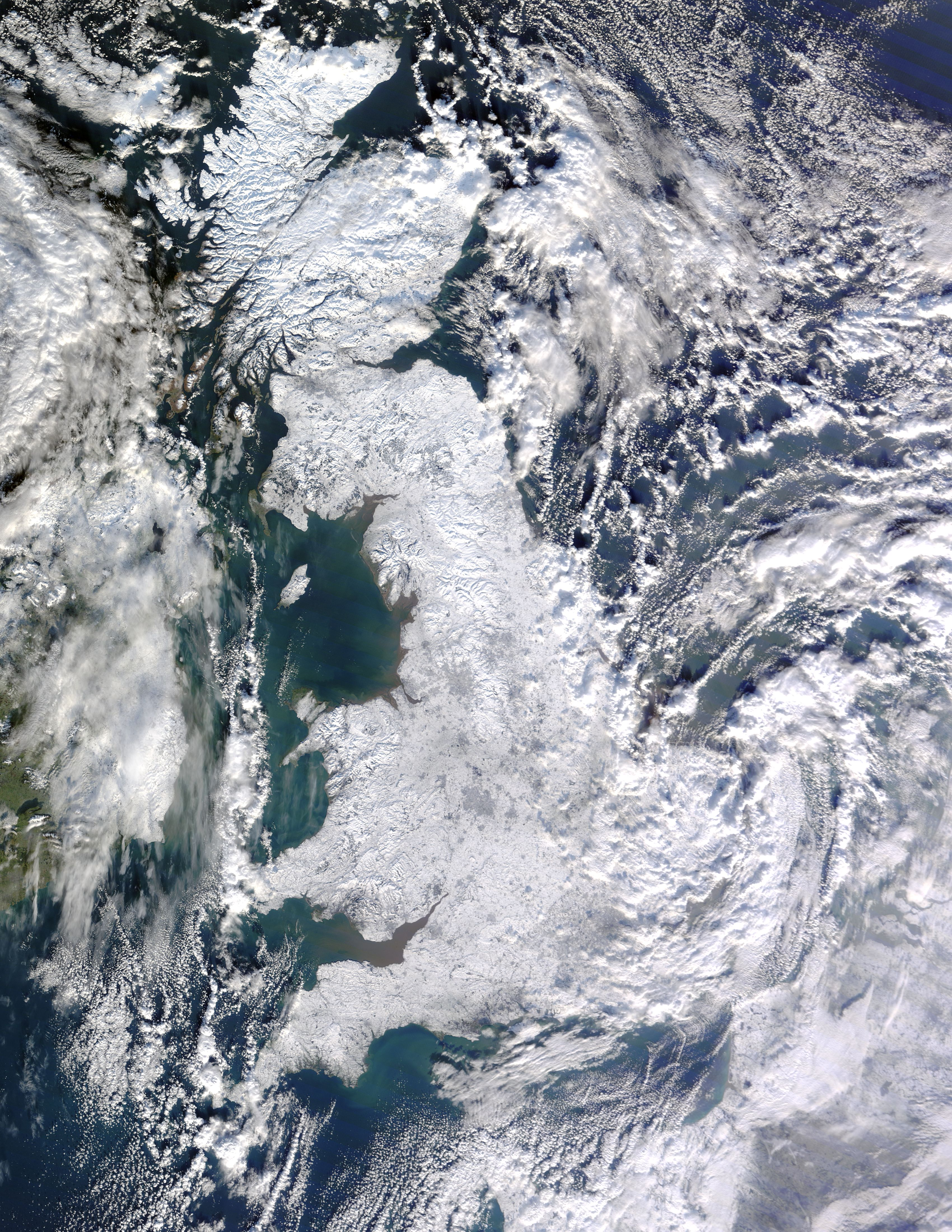 Satellite image of snow-covered Great Britain on 7 January 2010, taken by MODIS on NASA's Terra satellite.